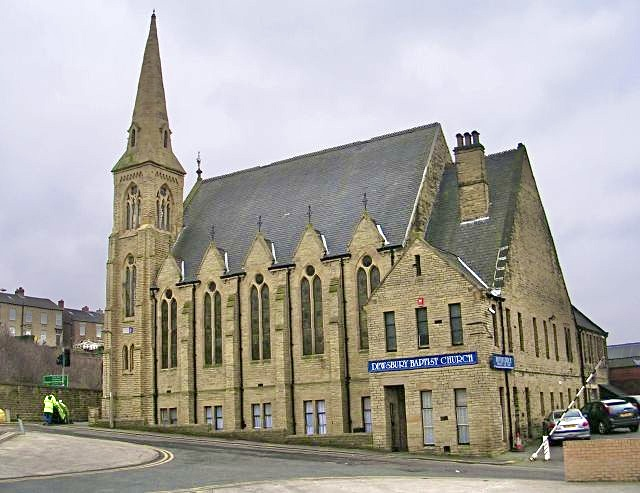 Dewsbury Baptist Church - Manor Street